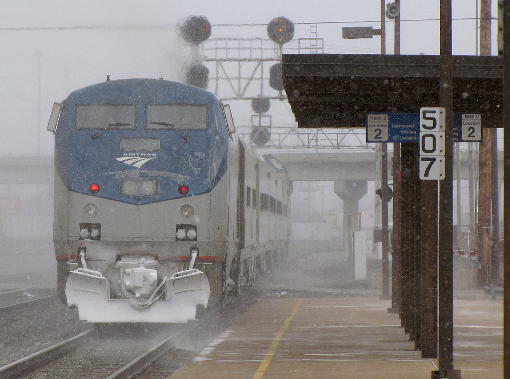 Amtrak 351 blows past the station at Hammond-Whiting without stopping during a lake effect snowstorm.